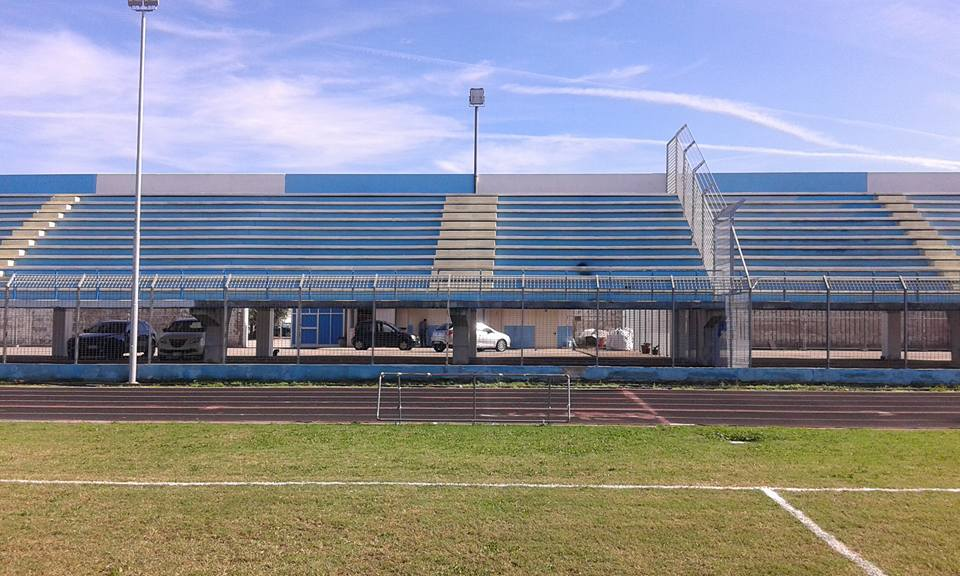 Tribuna scoperta del Comunale